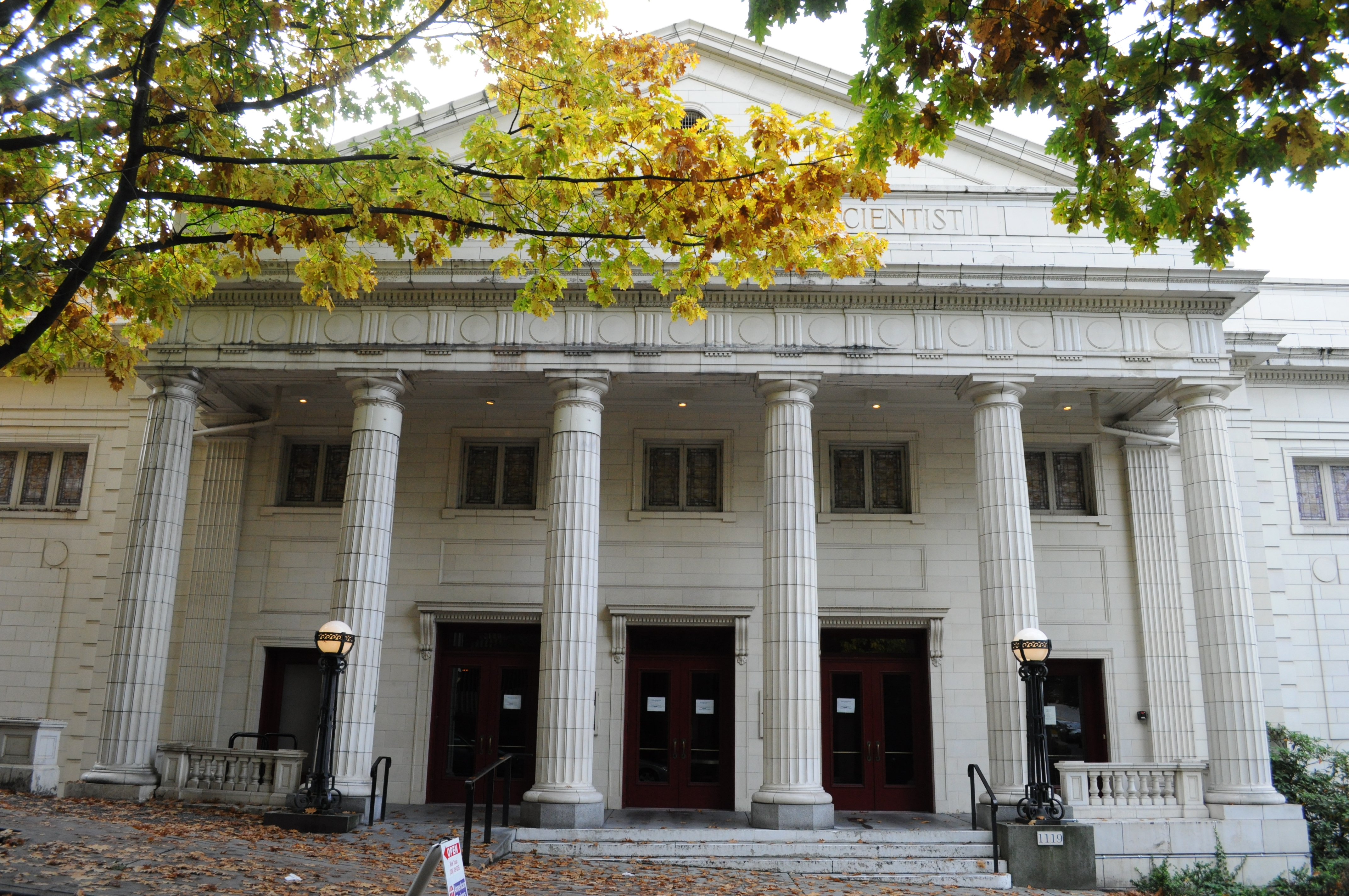 Town Hall Seattle (a theater and former Christian Science church), Seattle, Washington, USA.